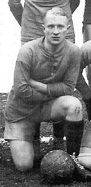 Swedish footballer Valdus "Gobben" Lund 1915. In lineup before international against Denmark, 31 of october.